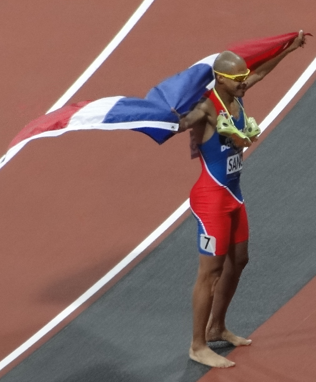 Felix Sanchez victory lap of honour, London 2012 Olympics